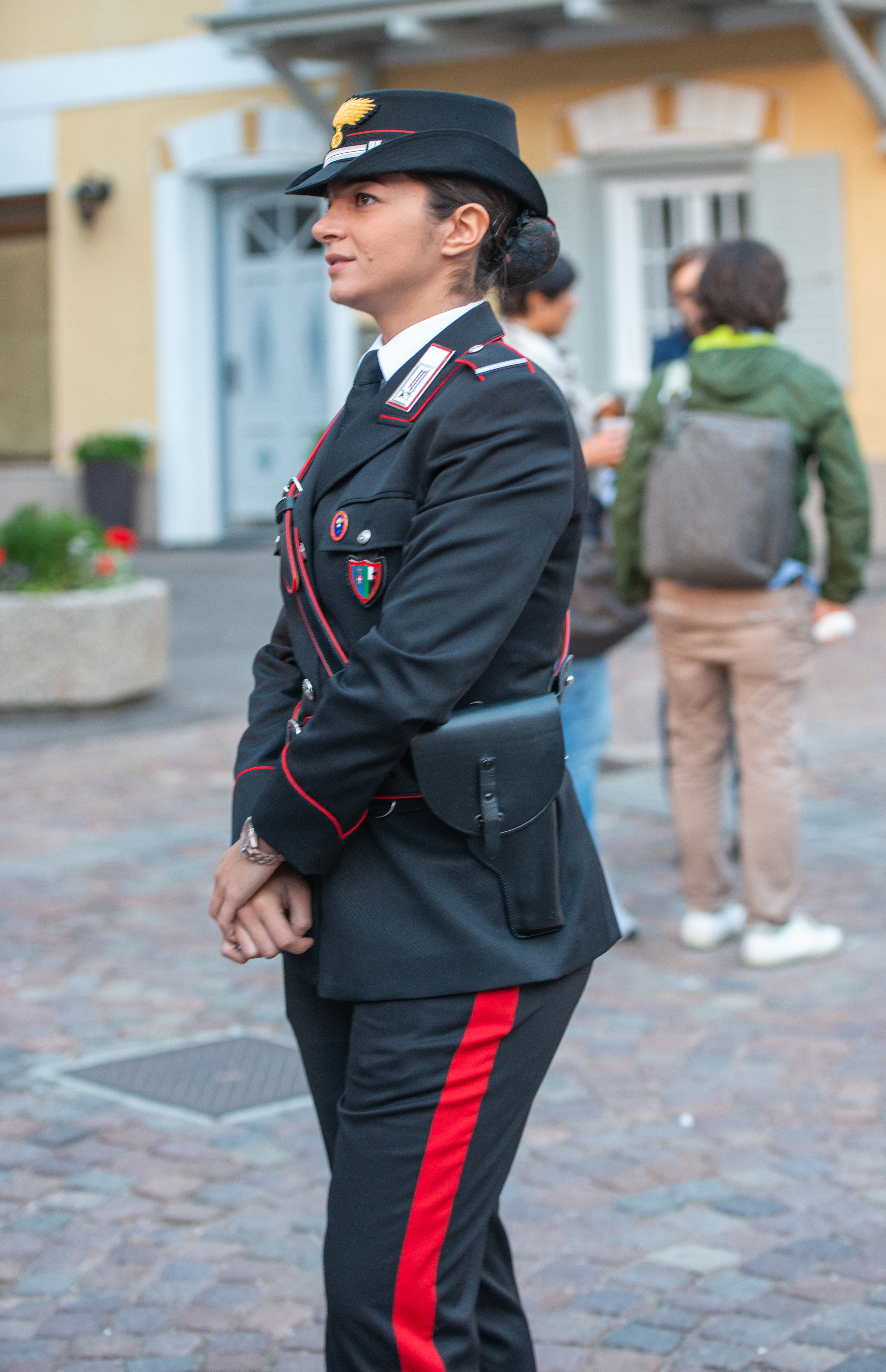 A female member of the Arma dei Carabinieri in Urtijëi in Gröden, South Tyrol